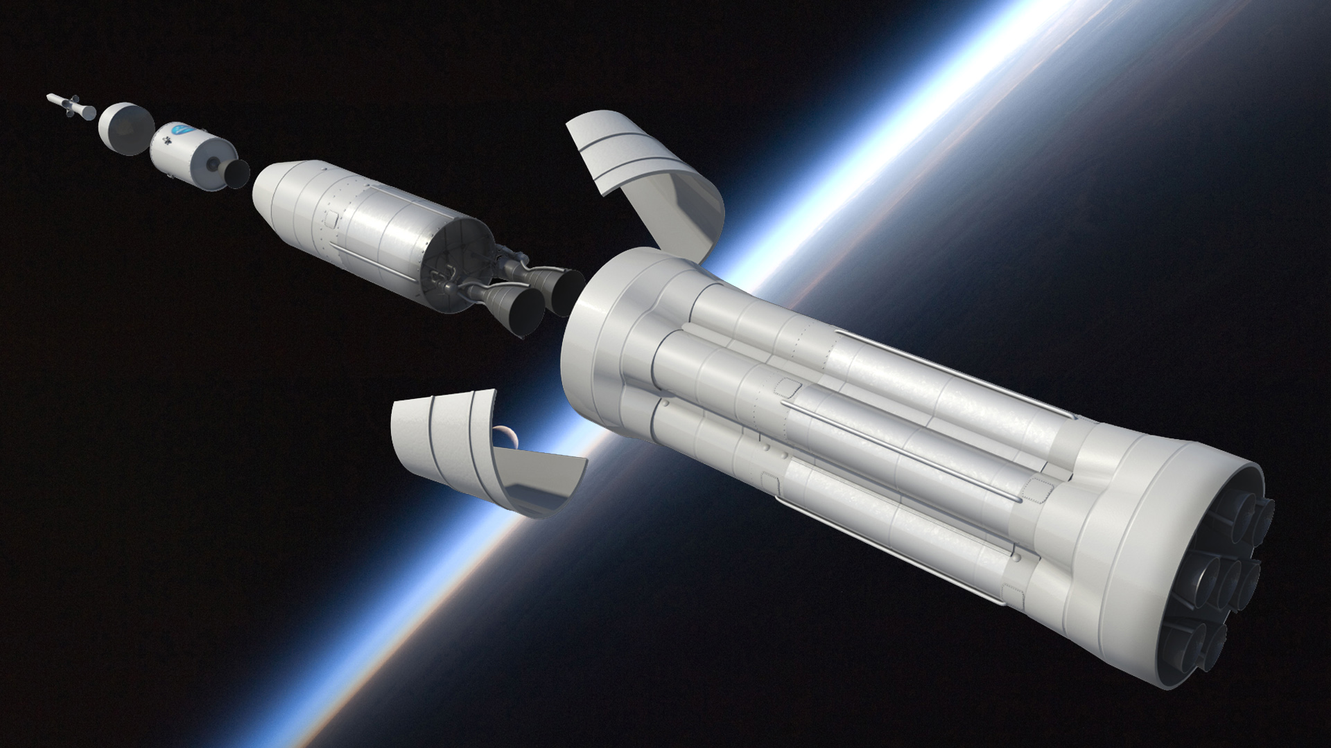 Computer generated image of Super Haas orbital rocket